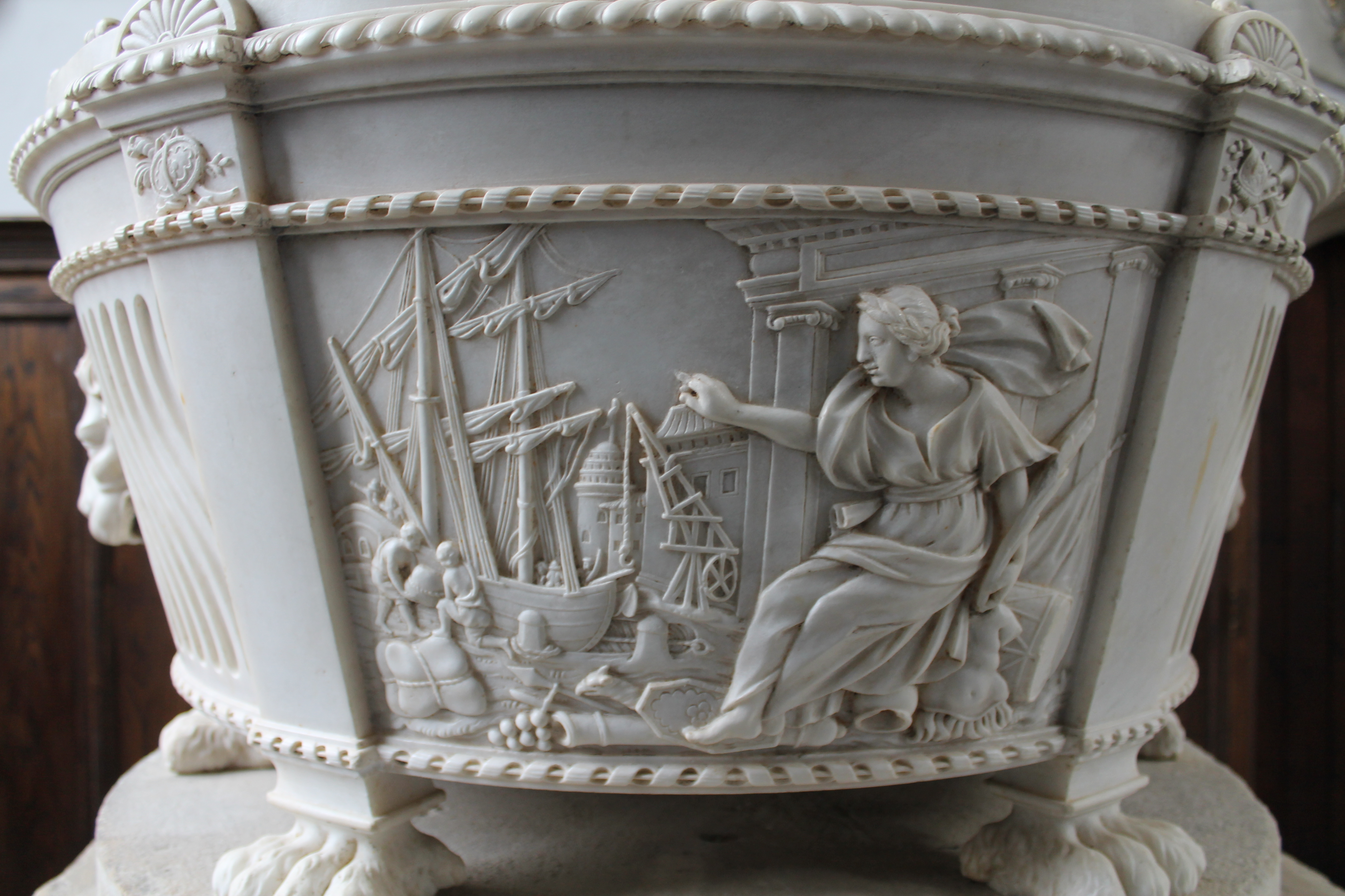 Monument to Sir Benjamin Keene, Ambassador to Spain and former Mayor, d. 1757 aged 61. Design by Robert Adam, featuring a quayside scene in Lisbon. Pic by Jenny.